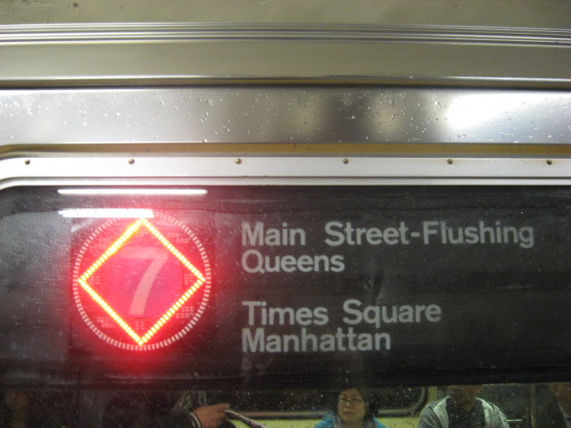 Red Diamond denoting express service on the 7 line